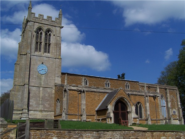 Pickwell parish church taken by kev747